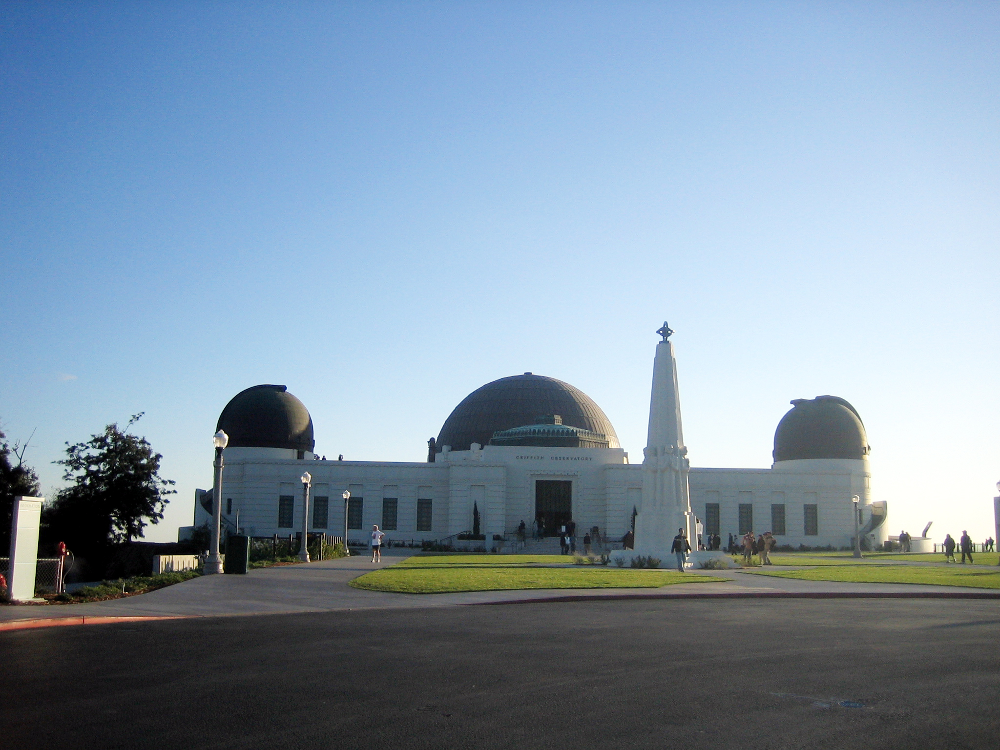 Griffith Observatory in Griffith Park, Los Angeles, California